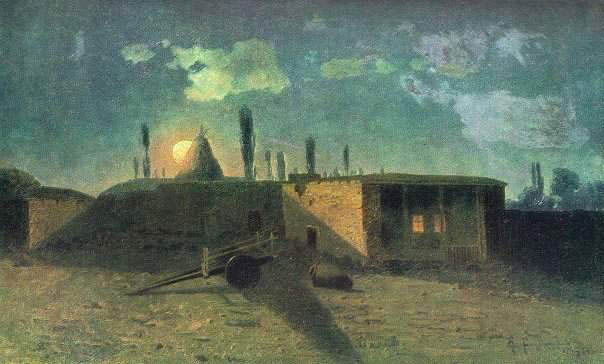 Stone house of Khachatur Abovyan in Kanaker.